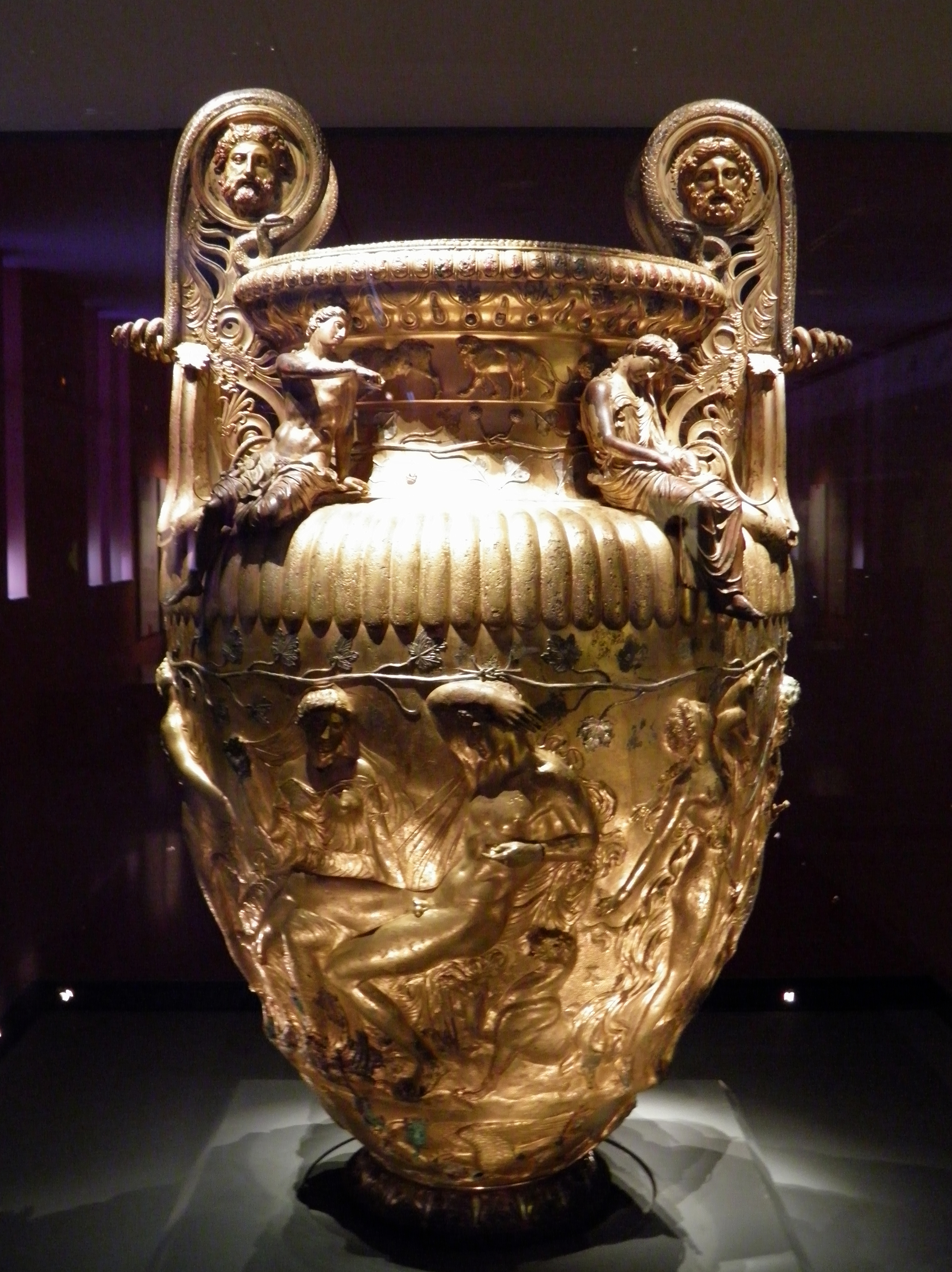 “The iconography of the krater is devoted to Dionysus, whose youthful image—naked—is central, like an icon, and larger than any other figure in the frieze. The gesture of his right arm over his head—when used in the representation of a deity—indicates the moment of divine epiphany. But this is also a marriage. In a rare and provocative gesture, the god’s right leg is slung into the lap of his bride Ariadne, a mortal woman, not a goddess.” —